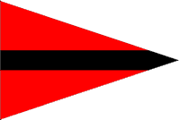 Flag of the Royal House of Benares Source Shiva-Nataraja Statut , G. Anfossi Catégorie:Drapeau de principauté des Indes catégorie:Uttar Pradesh